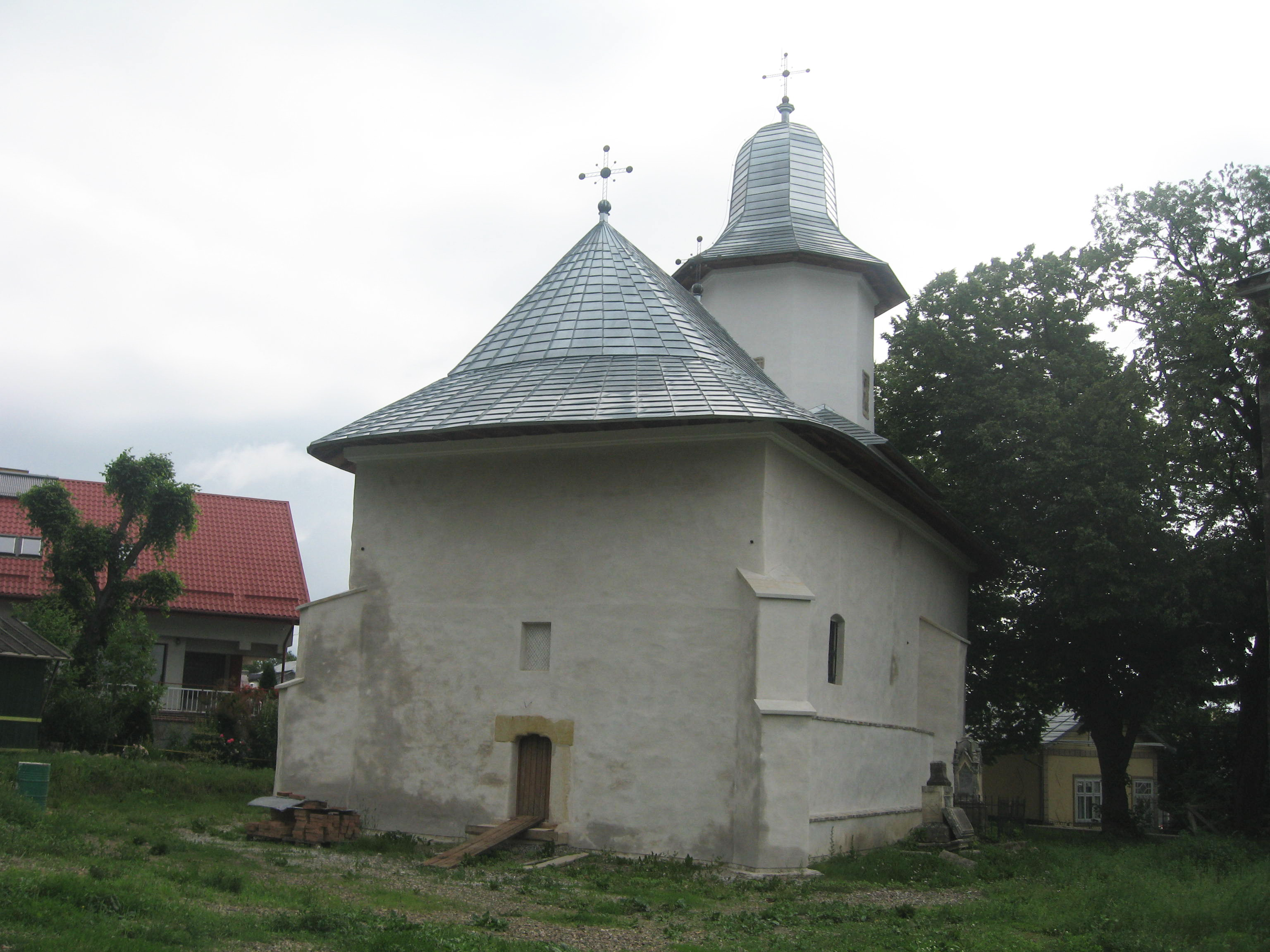 St. Simon Armenian Church in Suceava.